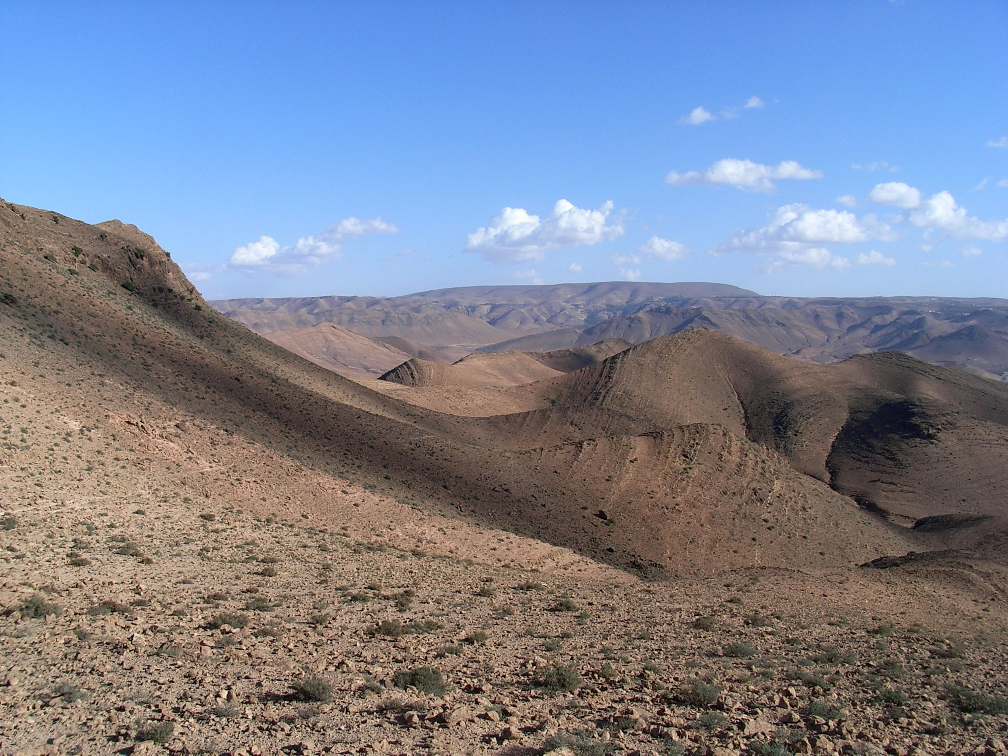 Taliouine; Marocco; Surrounding Hills, looking east